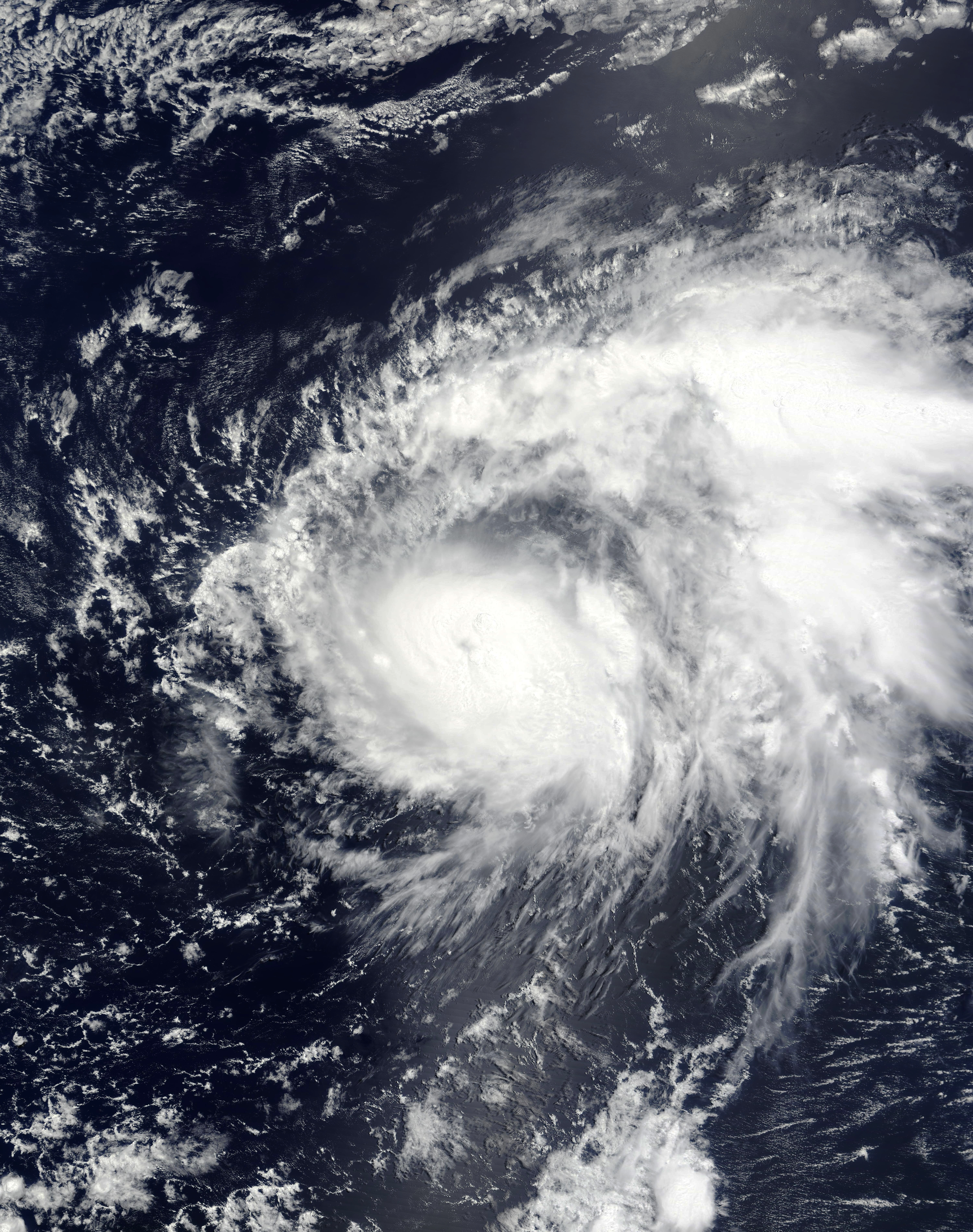 Hurricane Guillermo on July 31, 2015